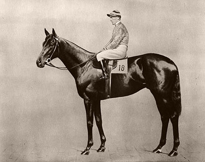 Manna was a Irish-bred Thoroughbred racehorse who won the prestigious Epsom Derby. He is shown here with Steve Donoghue up.